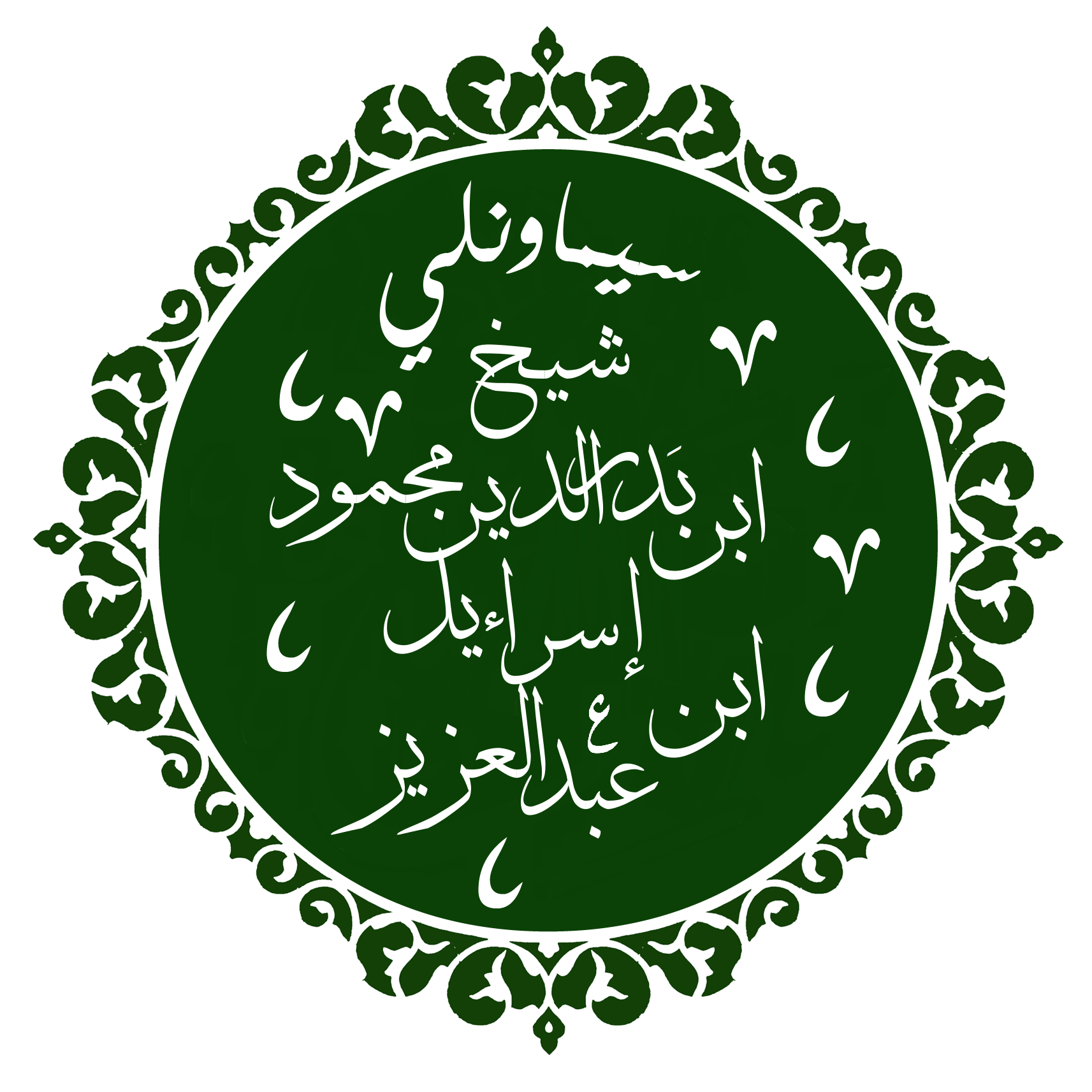 Calligraphy of Sheikh Bedreddin Mahmud bin Israel, leader of the revolution against the Ottoman Empire during the time of Sultan Mehmed I.